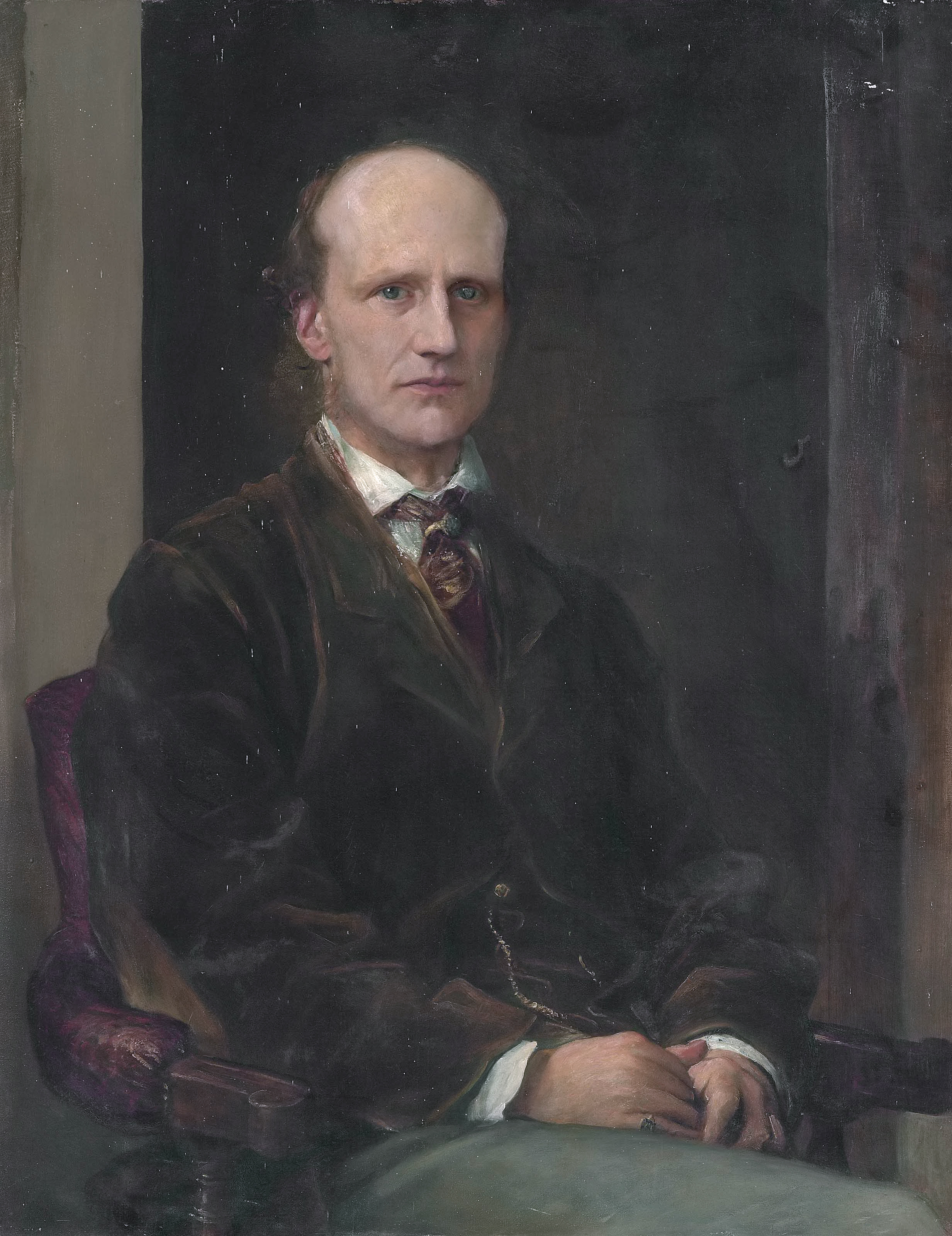 Horace Davey, Baron Davey (1833-1907) oil on canvas 91.5 x 71.1 cm